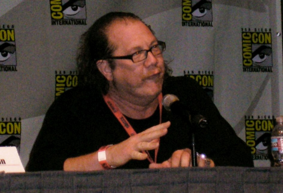 Fred Tatasciore at the 2009 San Diego Comic-Con International.